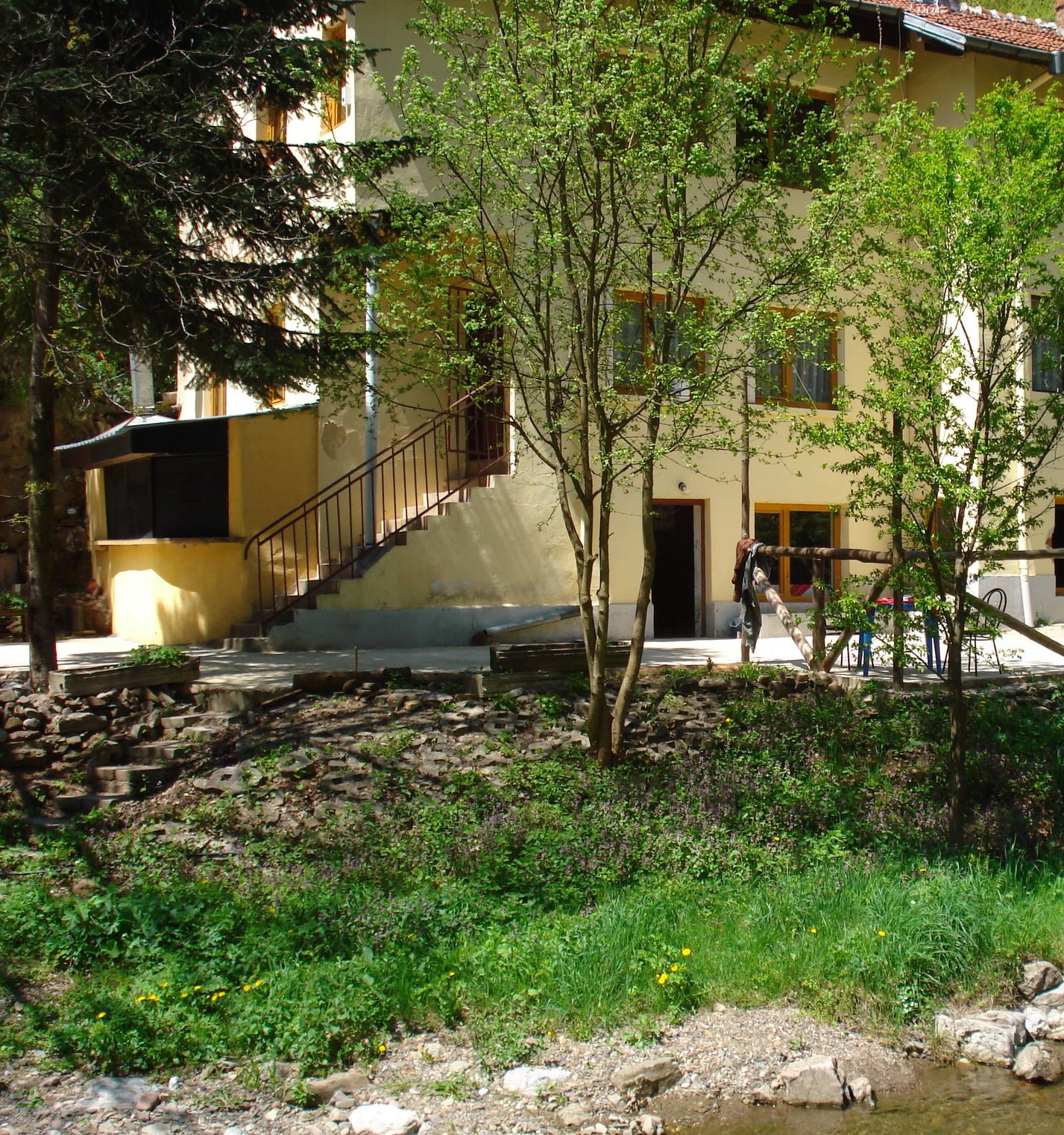 Chalet Luliaka